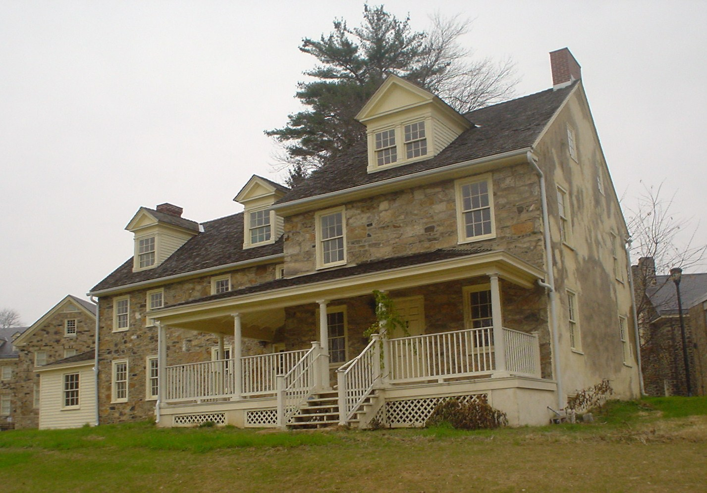 Melrose, the old President's house at Cheyney University of Pennsylvania. This is my own work, donated to the Public Domain.